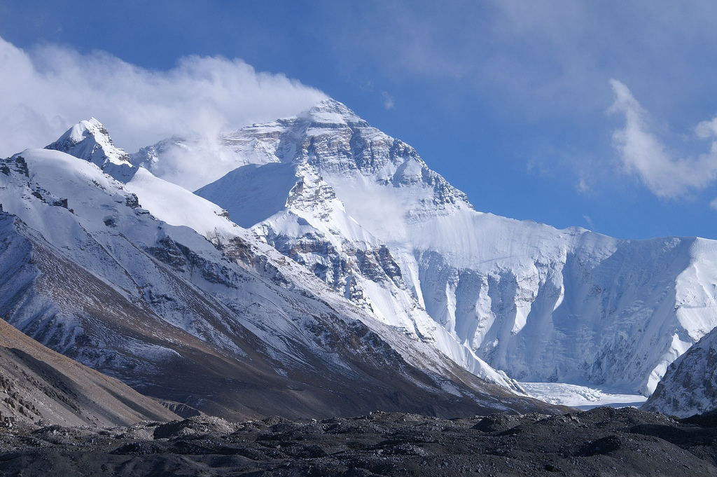 Mount Everest from base camp one.